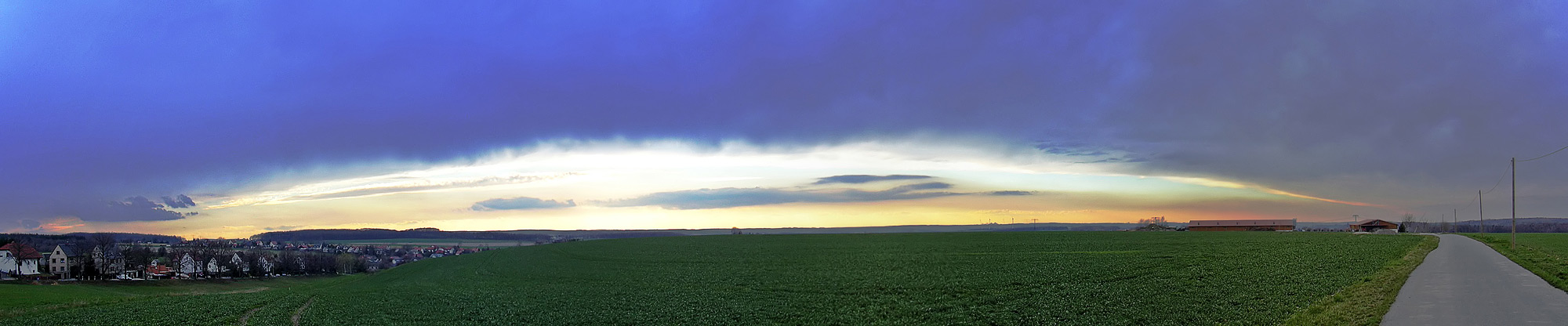 This image shows a sunset near Königswalde (Saxony, Germany). It has been stitched together using six single pictures.